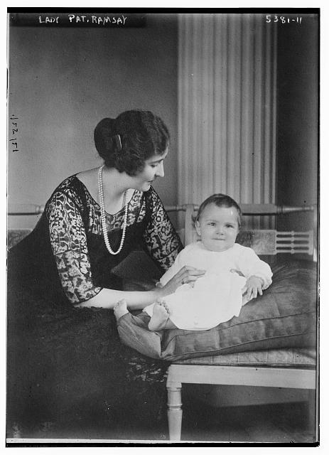 Princess Patricia of Connaught (1886-1974), later Lady Patricia Ramsay, with her son, Alexander Ramsay of Mar (1919-2000), ca. 1921.